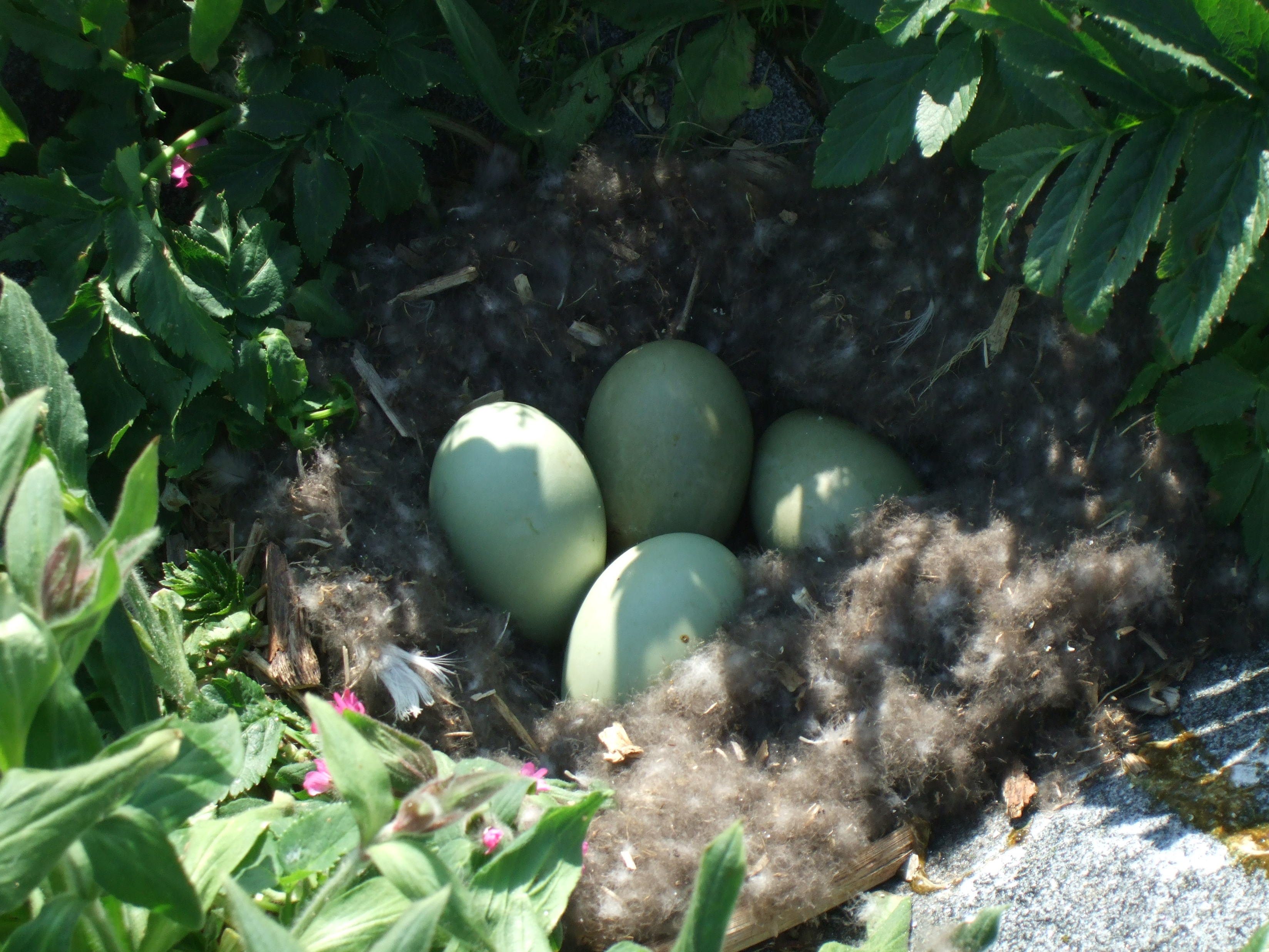 Nest of a Common Eider with eggs and eiderdown in Norway